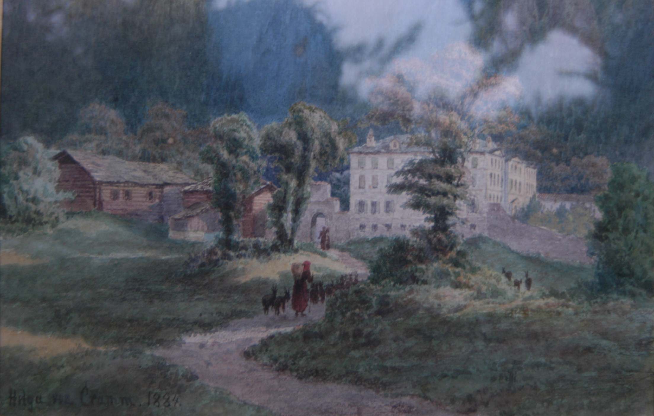 A watercolour dated 1884 by an artist called Helga von Cramm who was born in 1840 and thought to have died in 1901, she was the eldest sister of Baron Aschwin of Sierstorpff-Cramm (1846-1909).